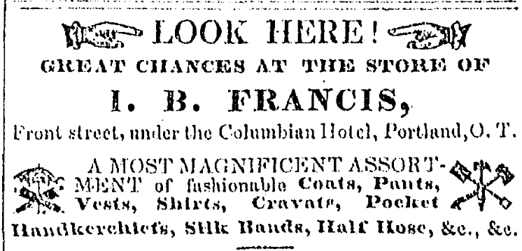 I. B. Francis (Isaac B. Francis) was a black pioneer, merchant, and early resident of Portland, Oregon. He and his brother A.H. and their families were threatened with expulsion because of Oregon's 1849 black exclusion law. This is an advertisement for I.B.'s store on Front Street. First published in The Oregonian in 1852, recently published in Notable Women of Portland (2017).